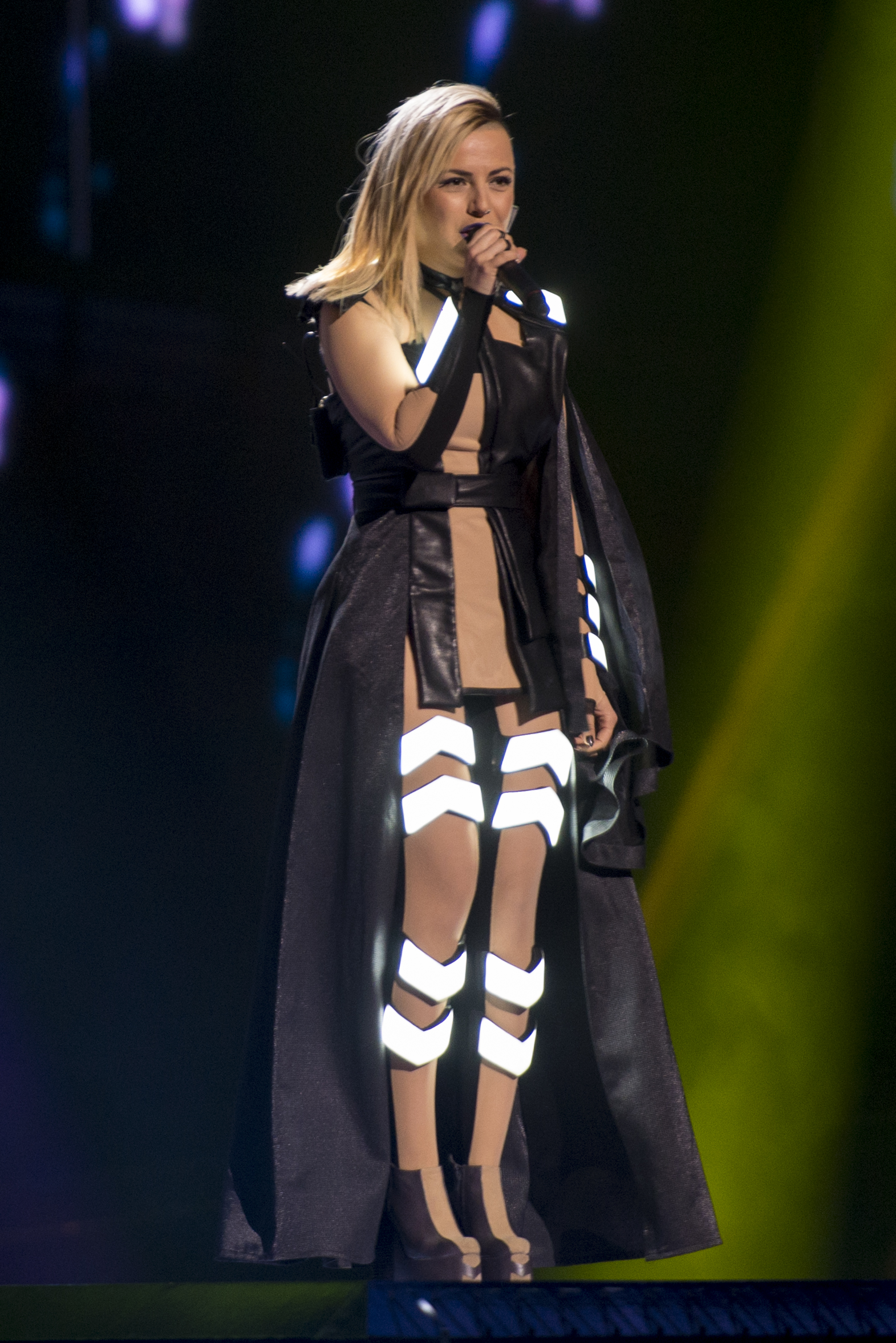 Poli Genova representing Bulgaria with the song "If Love Was a Crime" during a rehearsal before the second semi final of the Eurovision Song Contest 2016 in Stockholm. (Help translate this text)